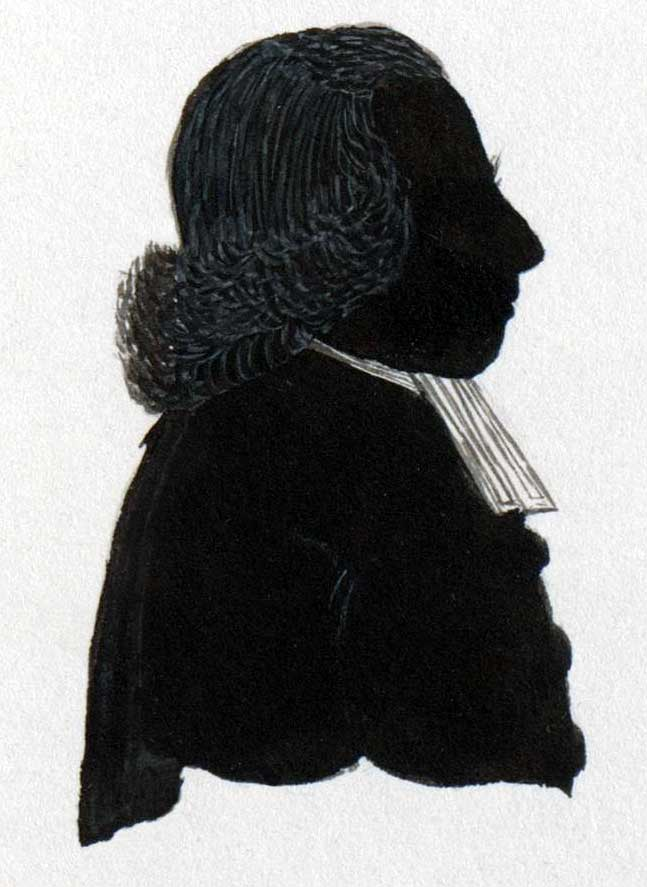 Broërius Broes auch: Brouërius Broes (1757-1799) Dutch Reformed theologian